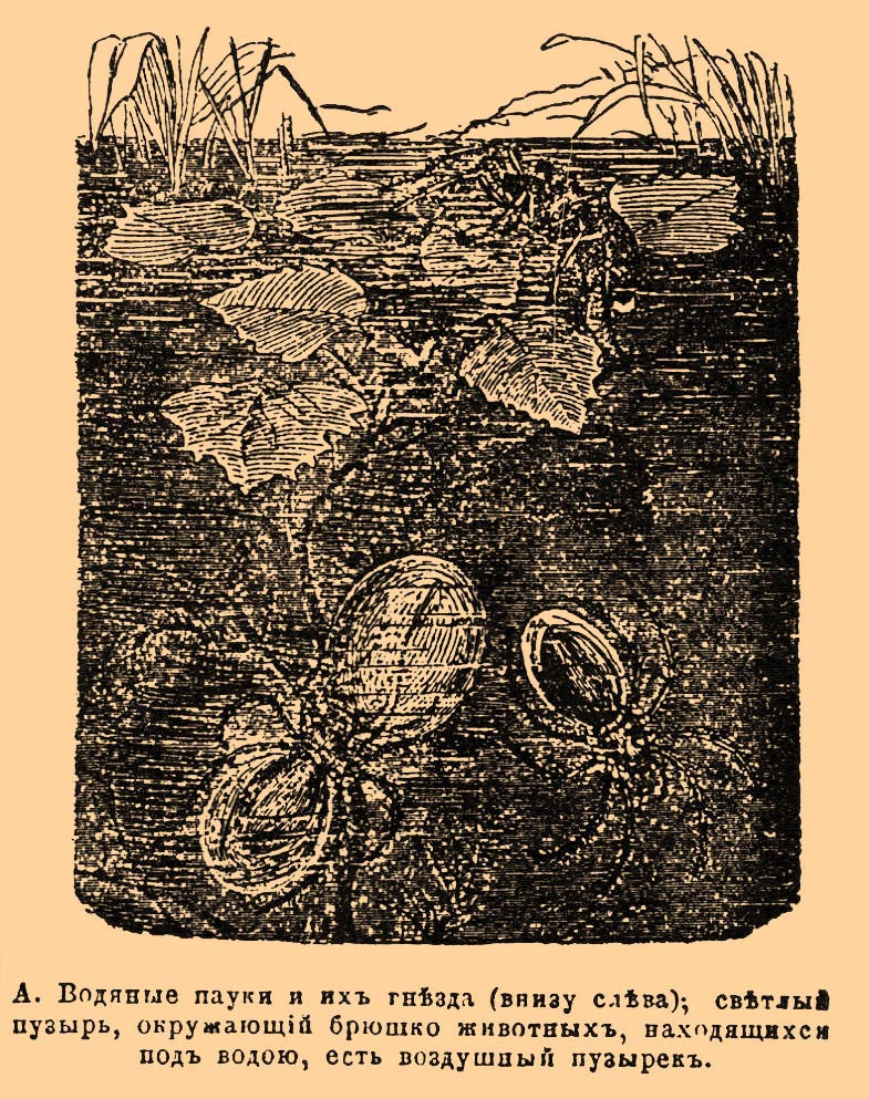 Illustration from Brockhaus and Efron Encyclopedic Dictionary (1890—1907)